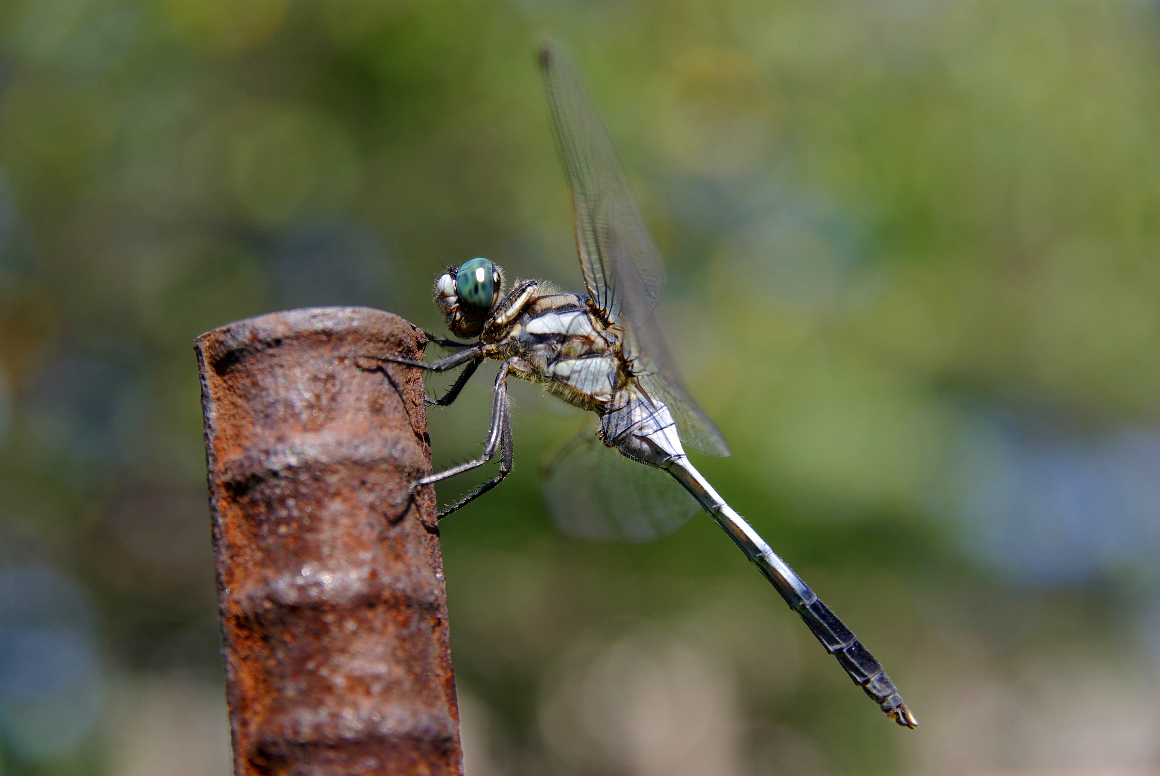 Common skimmer